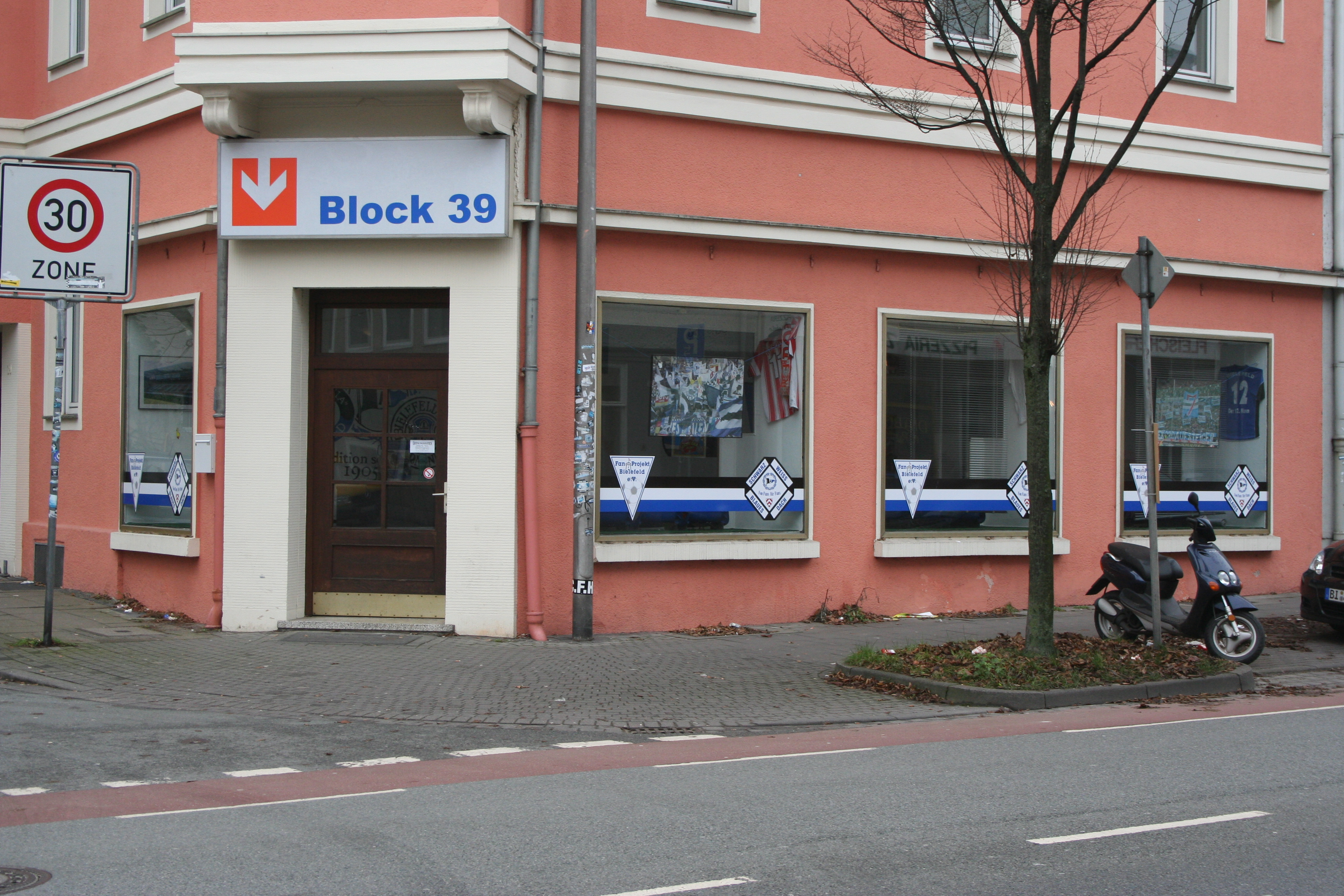 Block 39. Fan-Meetingpoint of the "Fan-Projekt Bielefeld e.V." and the "Schwarz Weiß Blaue Dach" at Ellerstraße 39.